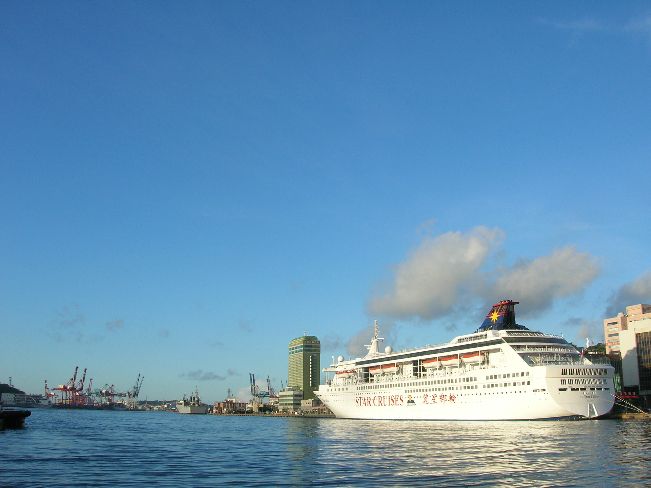 Superstar Libra at East Wharf, Port of Keelung.